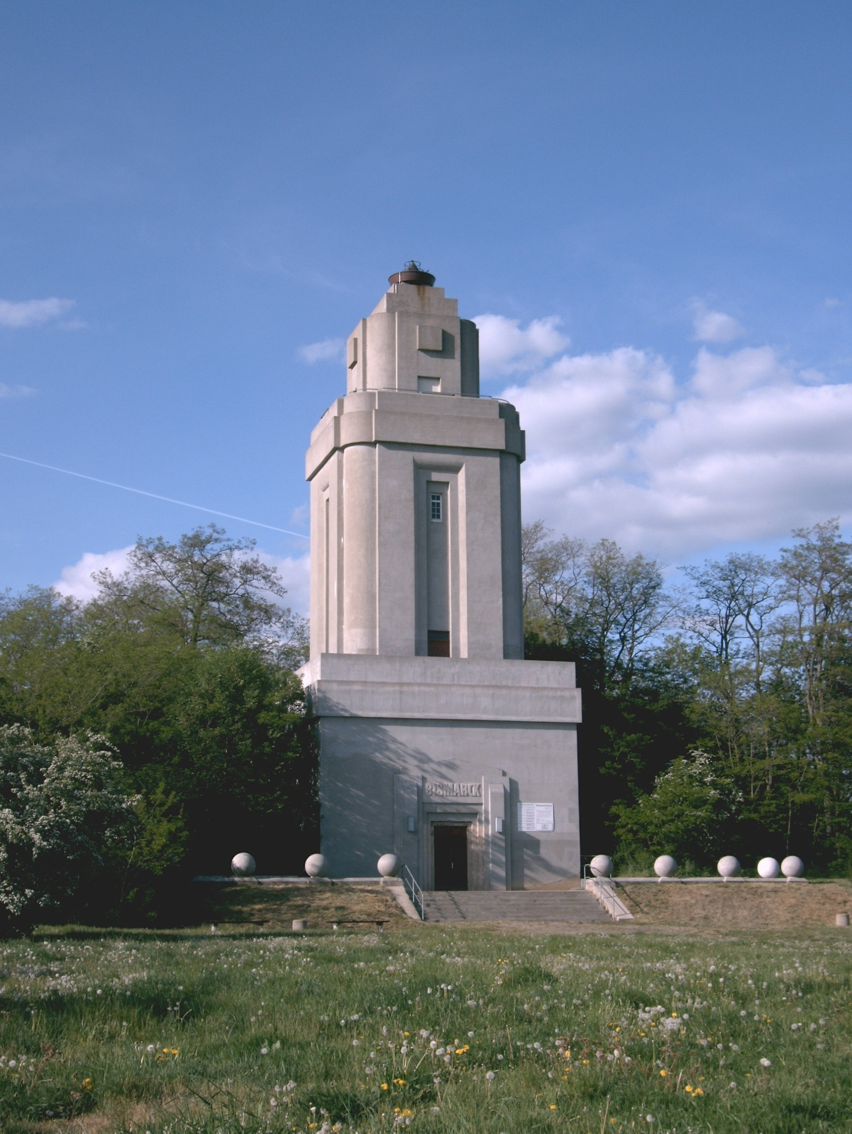 The Bismarck tower located in Lützschena-Stahmeln (quarter of Leipzig, Germany).